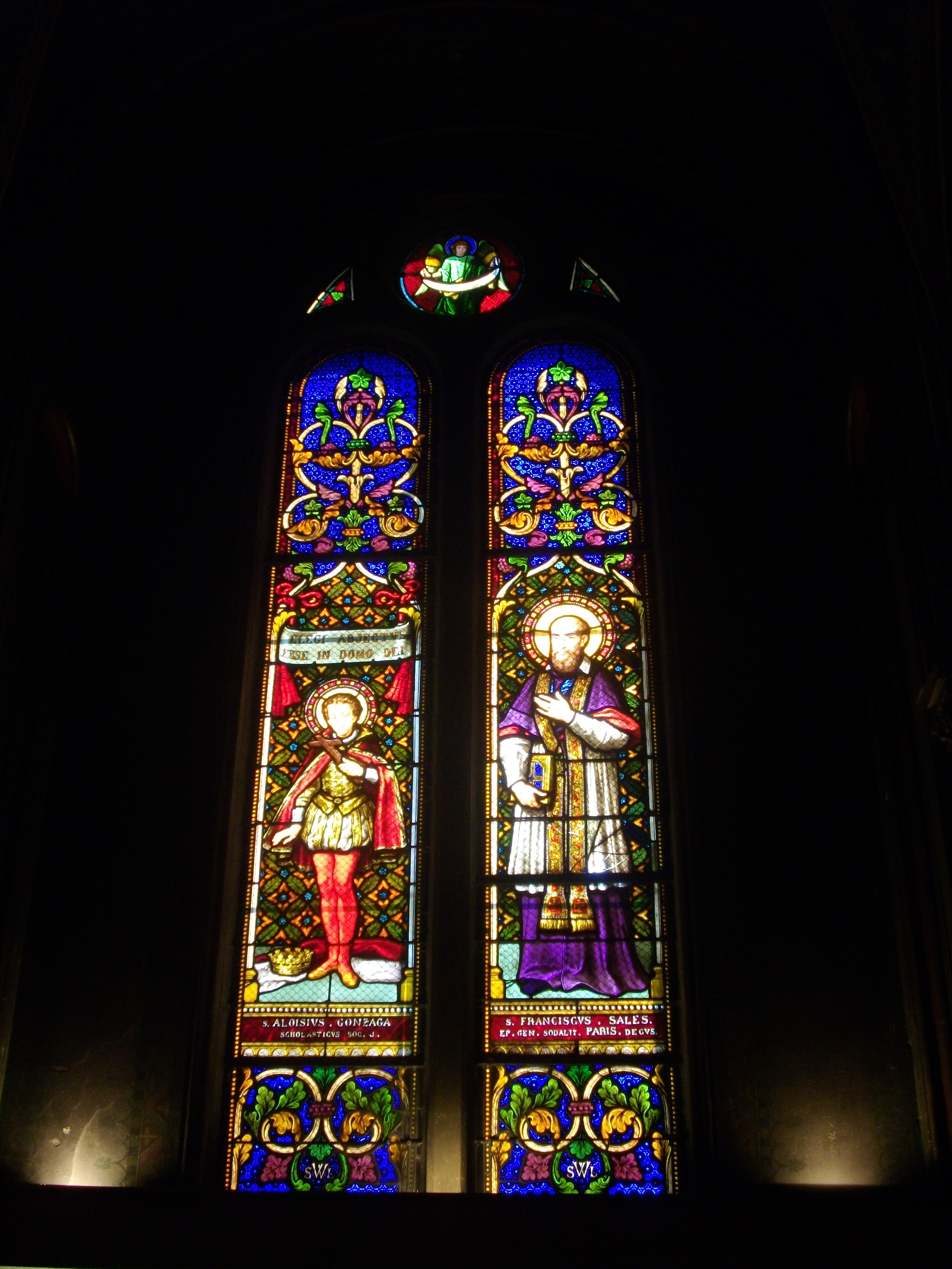 Former jesuistic chapel of Saint Clement abbey in Metz (Moselle, France) ; stained glass windows representing Aloysius Gonzaga and Francis de Sales .